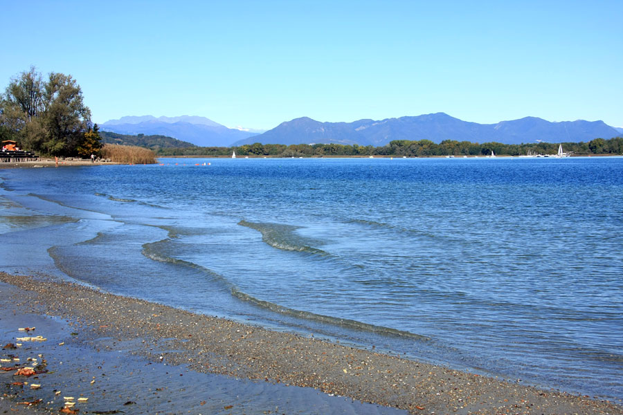 Lake Maggiore, Dormelletto, Novara, Italy